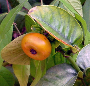 Photo taken by Christopher Hind at the Bill Whitman Tropical Fruit Pavilion at Fairchild Tropical Botanic Garden